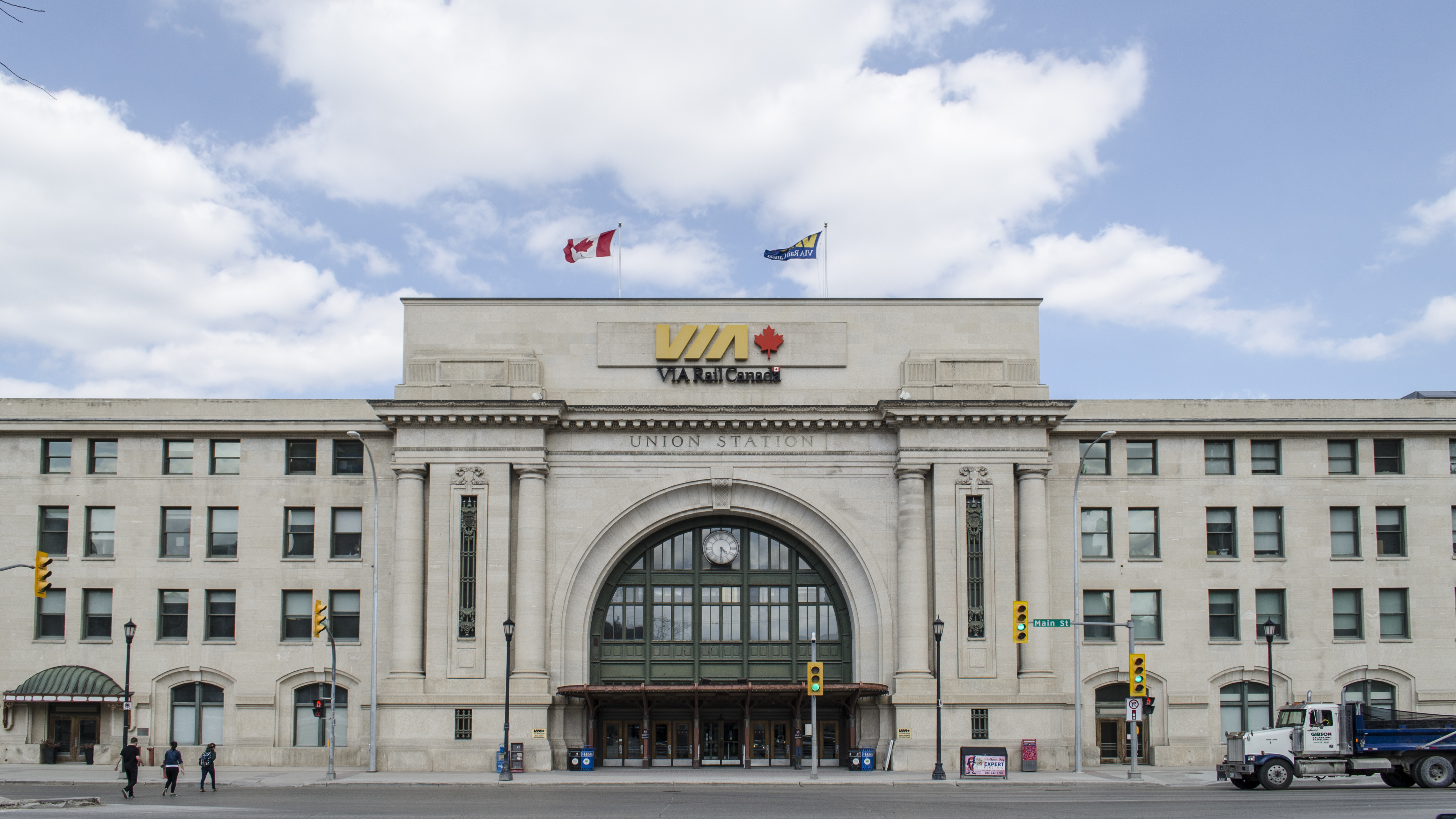 The entrance to the Via Rail Union Station building from Main Street in Winnipeg, Manitoba